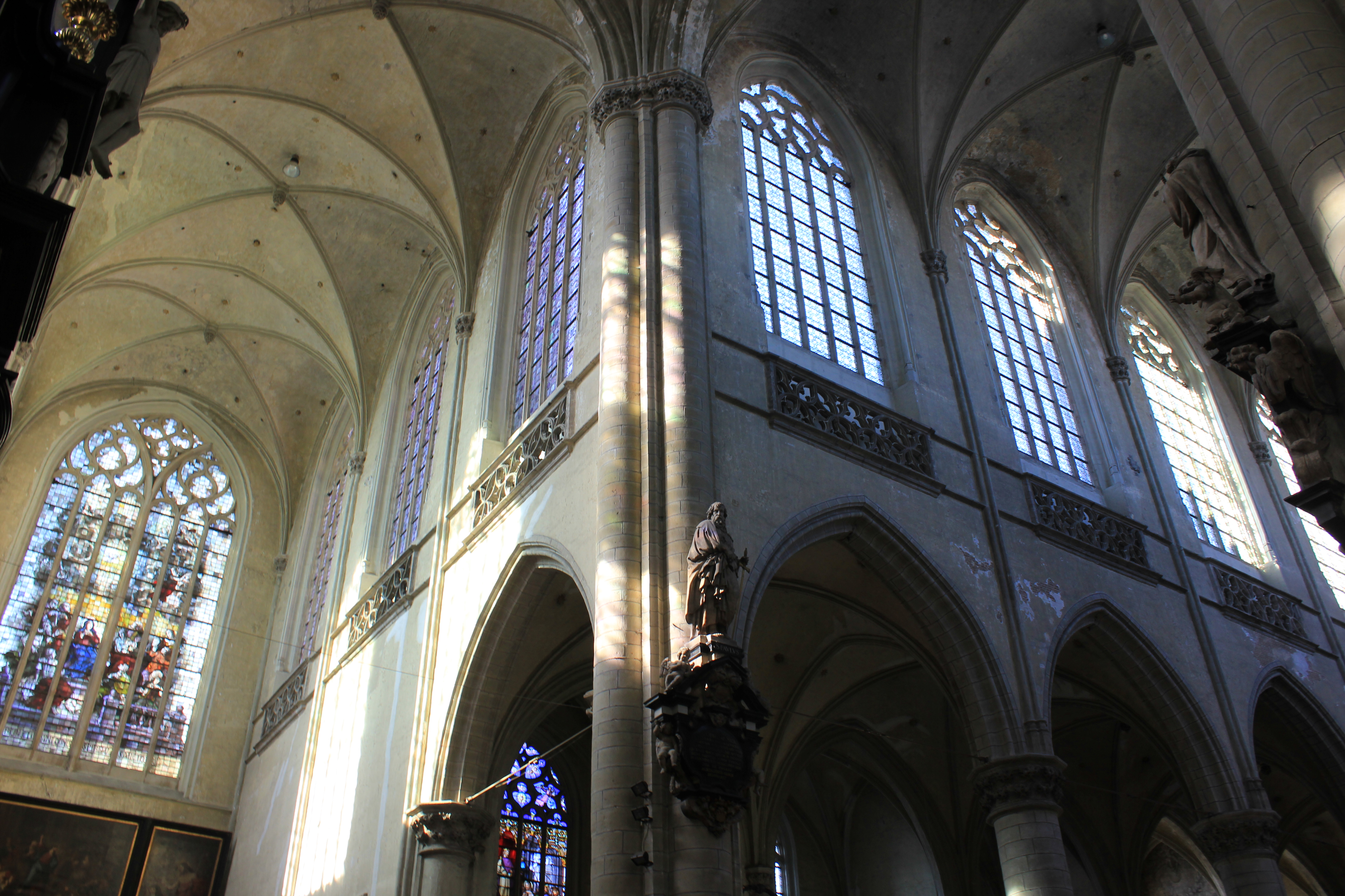 Inner view